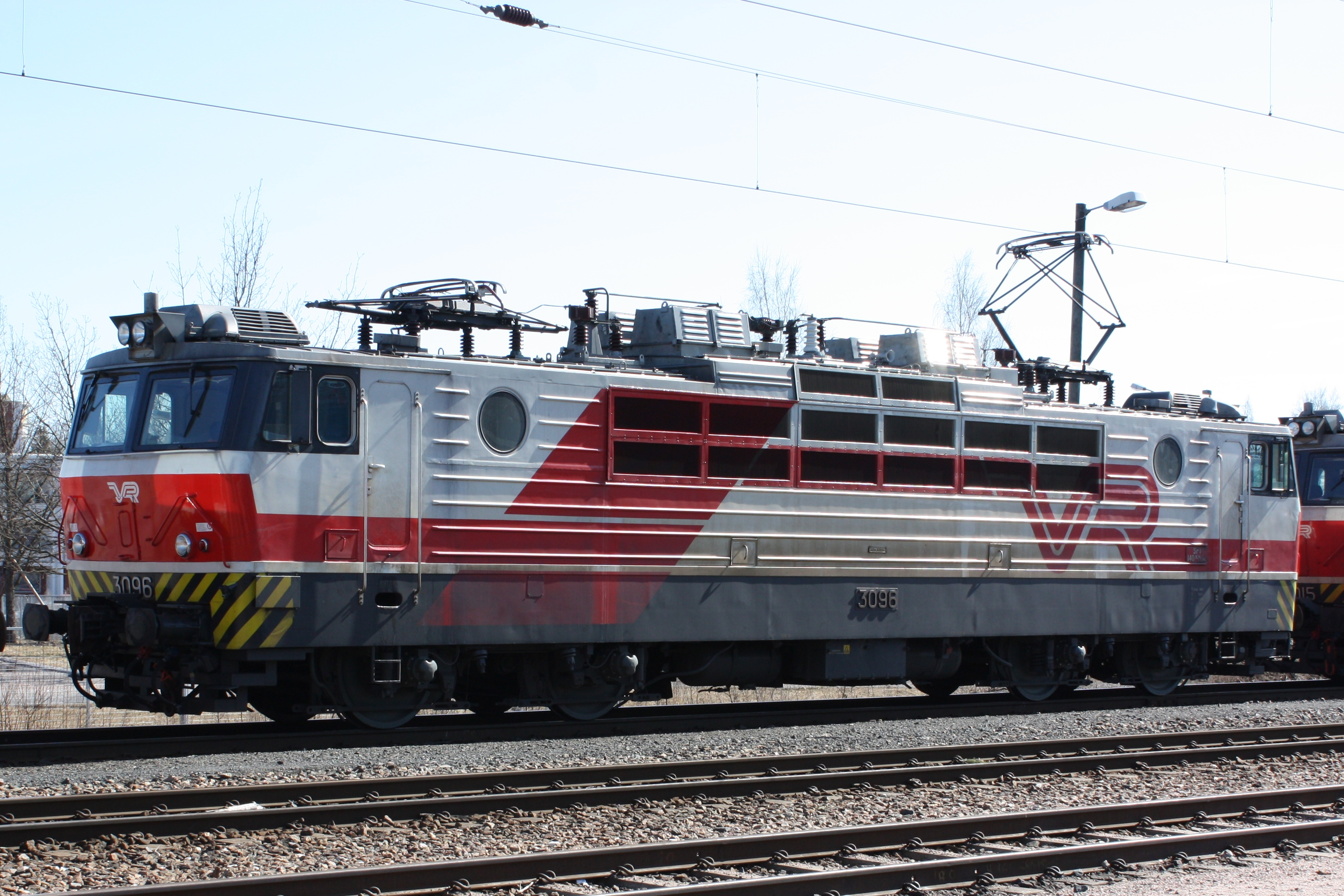 VR Sr1 class electric locomotive #3096 in Riihimäki, Finland